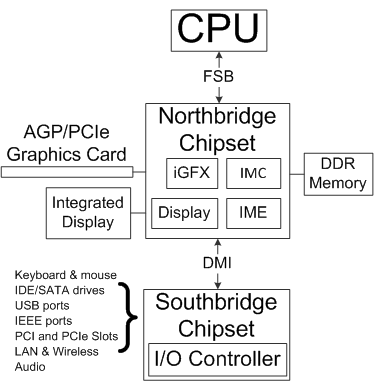 An Intel 4 Series Architecture of motherboard components and function.